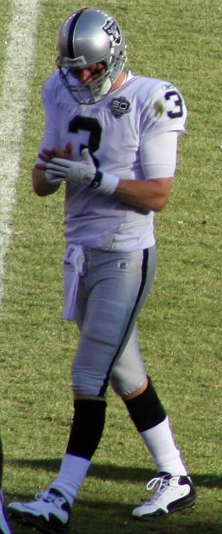 Charlie Frye, a player on the Oakland Raiders American football team.